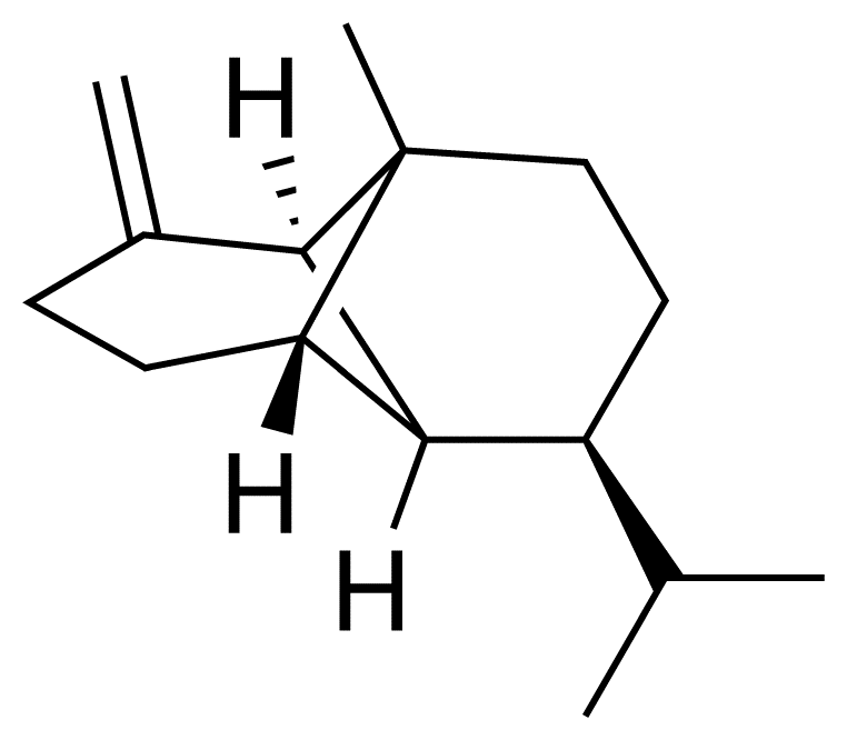 Skeletal structure of β-copaene (uncertain optical isomer).